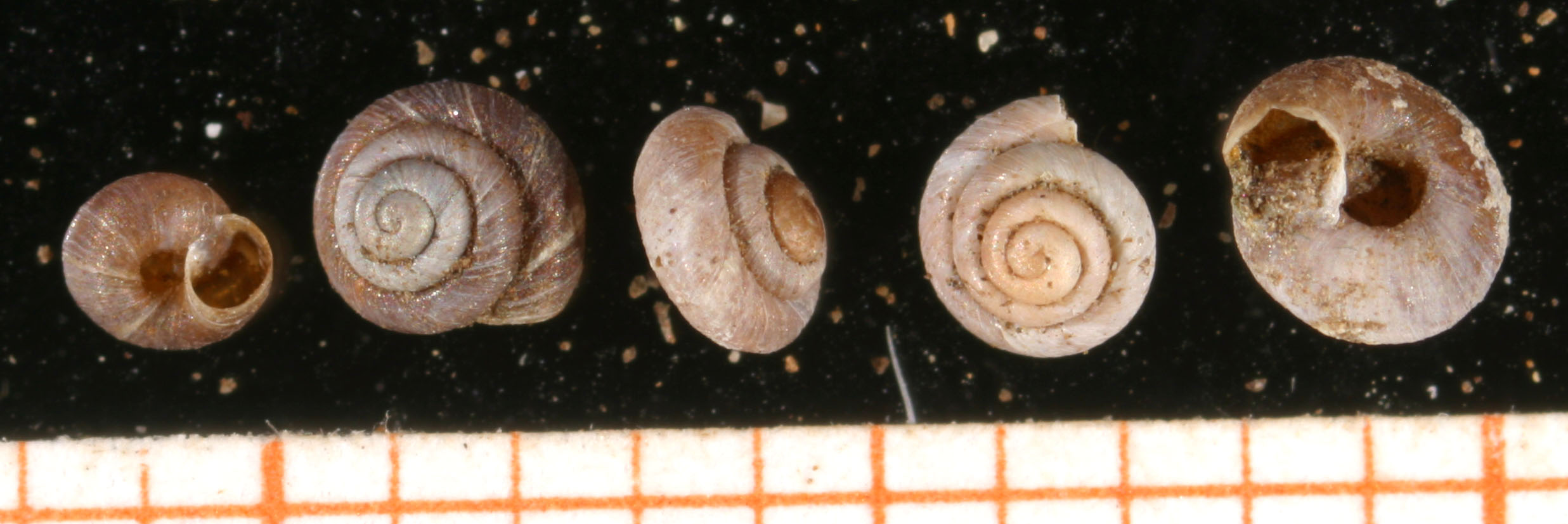 shells of Pyramidula pusilla. (Scale is in mm.) Locality: Albania: Përmet, 300 m alt. 14 Septemeber 1995